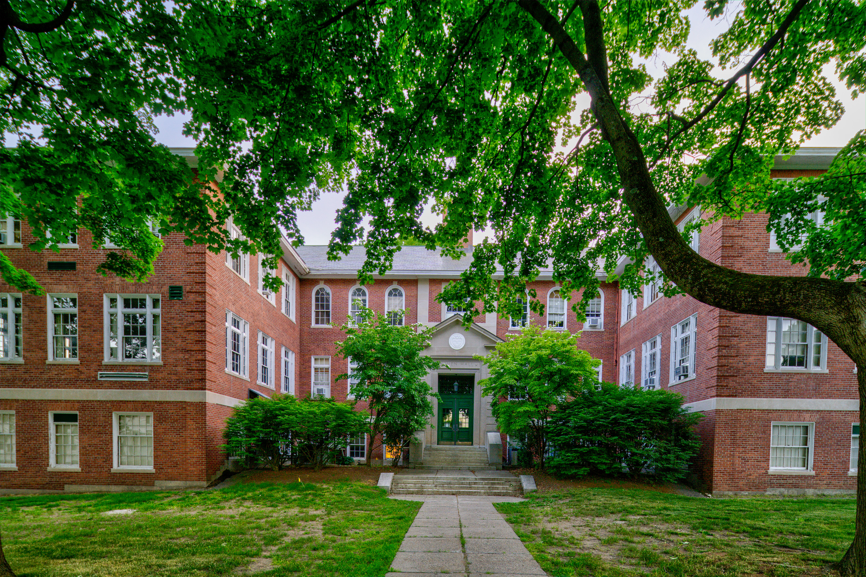 Kaven Hall, Worcester Polytechnic Institute. Home to the Department of Civil and Environmental Engineering, Kaven was constructed in 1954.